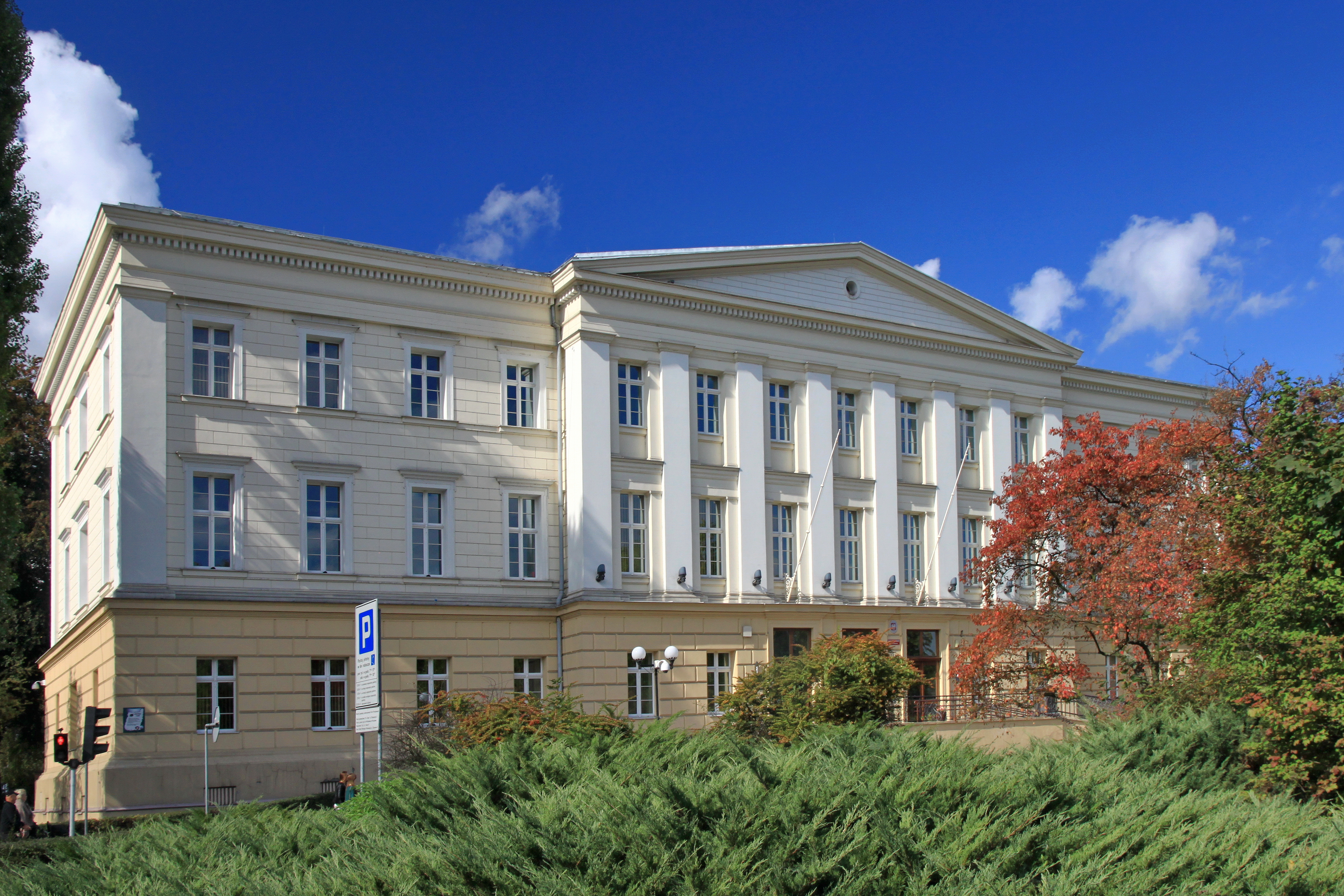 Racibórz, district court, build in 1823-1826